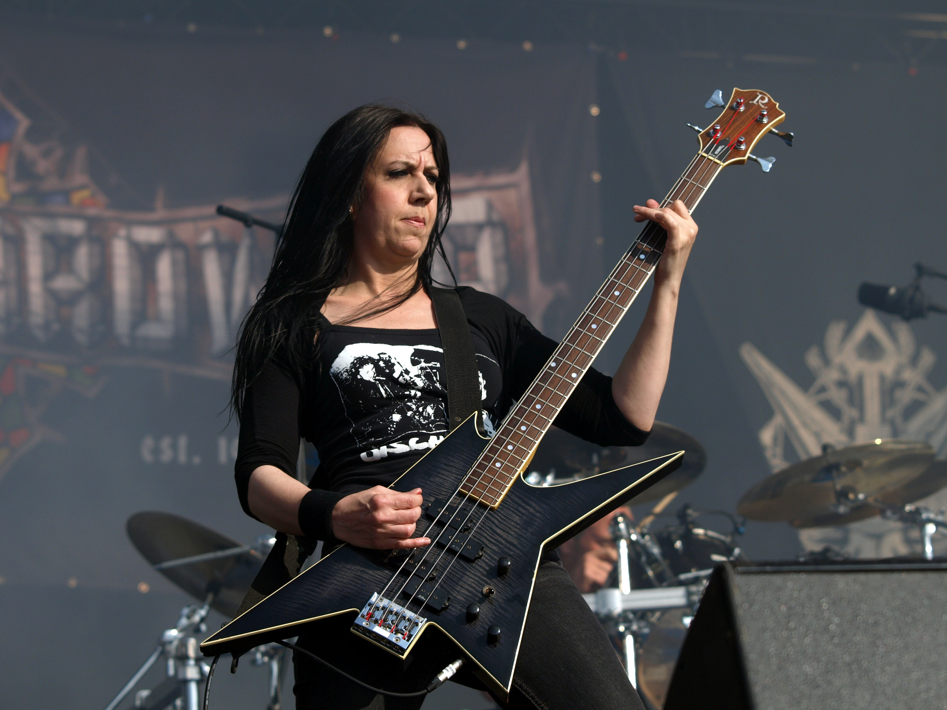 British death metal band Bolt Thrower live atTuska Open Air 2013